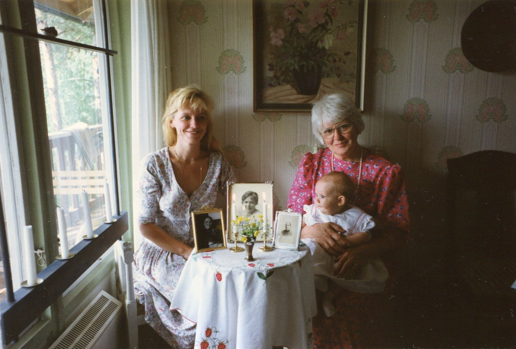 Hanna Fredrika Klum with her mother Ingegärd Fredrika Stefanson Klum and daughter Fredrika Klum Stelander on the occasion of the baby's baptism, posing with photos of Ingegärd Klum's (l-r) grandmother Emma Fredrika Sandberg, mother Ragnhild Fredrika Klum & great-grandmother Fredrika Wahlberg - the picture is called Six Frederikas,Place: Klummarbo, Sjöbo, Ludvika, Sweden